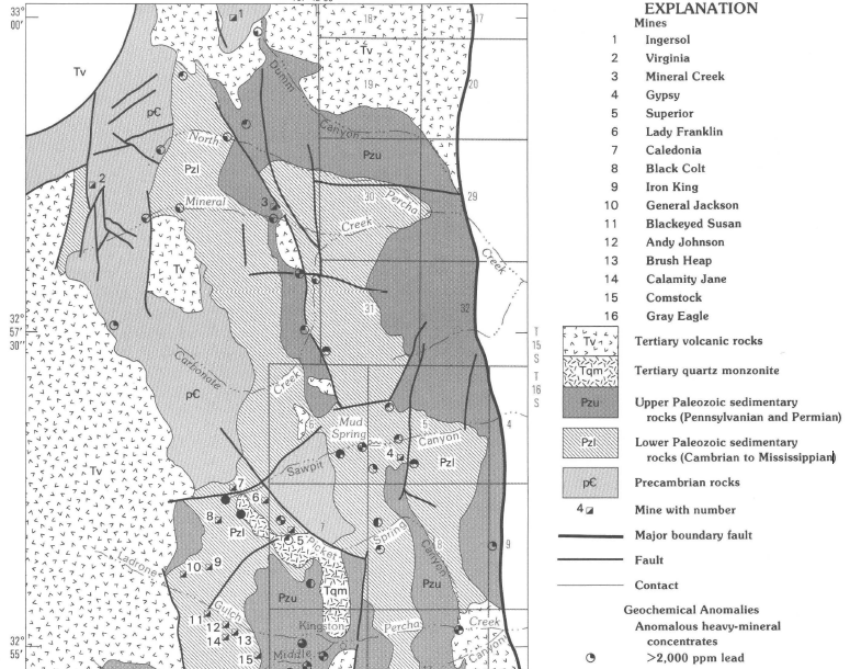 Kingston New Mexico geologic map